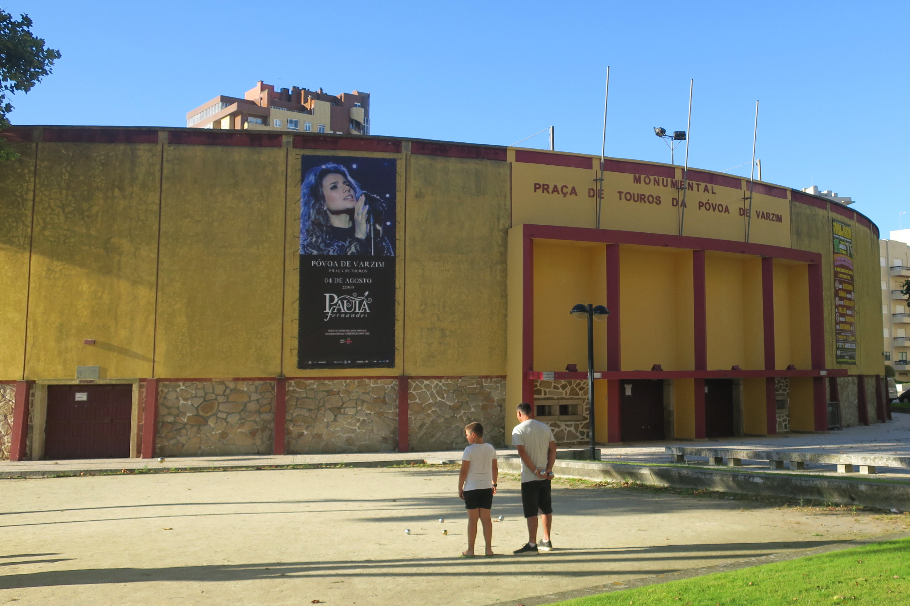 Povoa de Varzim Bullfighting Arena, Portugal